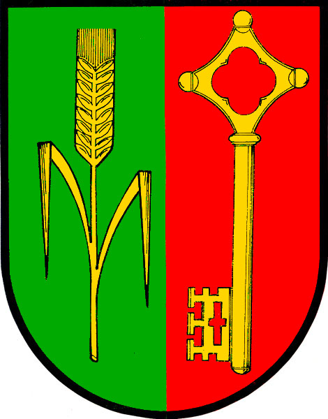 Municipal coat of arms of Velenka village, Nymburk District, Czech Republic.